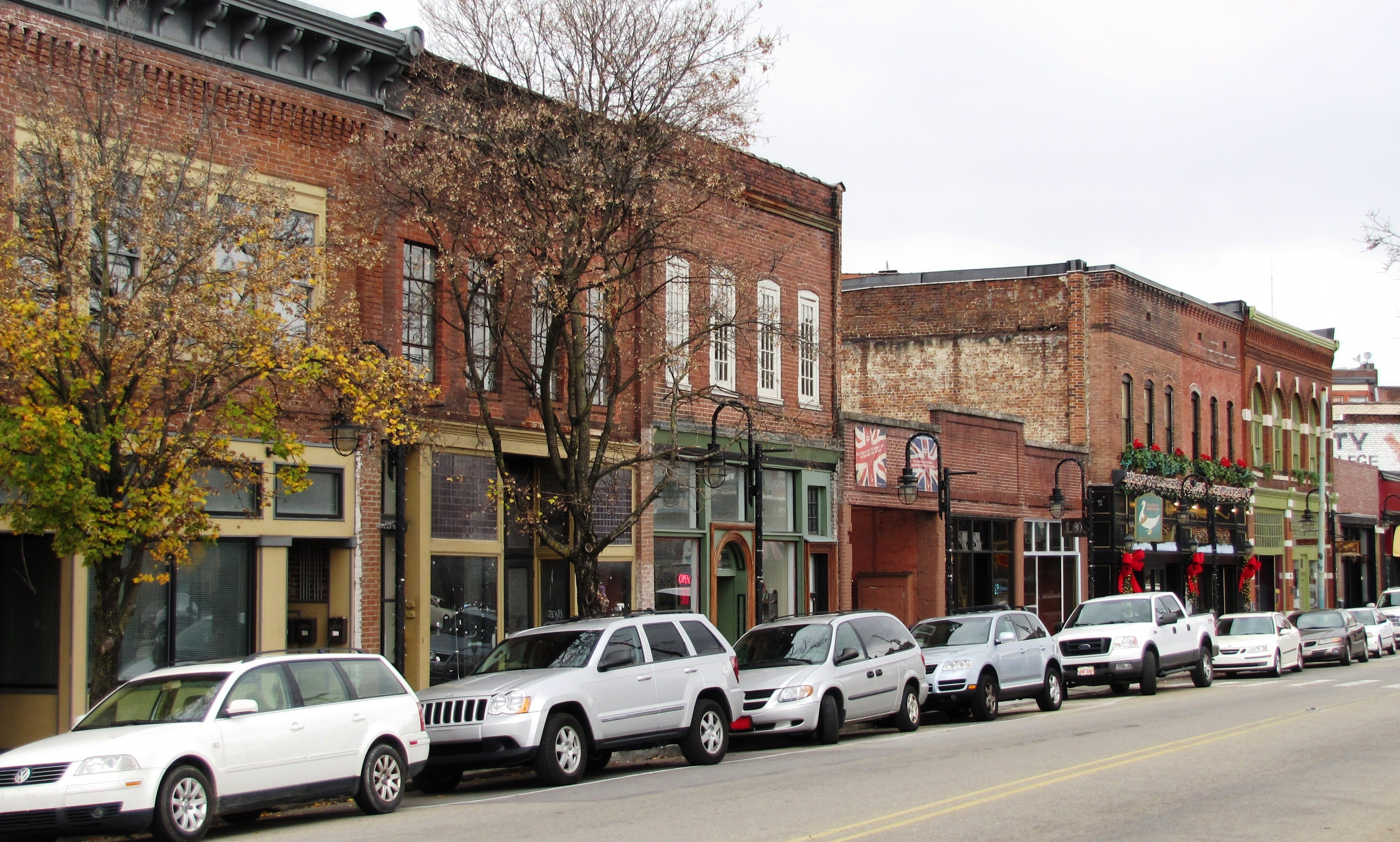 The west side of South Central Street in the Old City of Knoxville, Tennessee, USA. The one-story building in the middle (127-129 S. Central) was built circa 1925. The three buildings to its left (131, 133, and 135 S. Central, with 135 farthest left) and the building to its immediate right (123-125 S. Central) were all built circa 1900. The green Italianate building on the far right (119-121 S. Central) was built circa 1890. These buildings are all contributing properties within the NRHP-listed Southern Terminal and Warehouse Historic District.